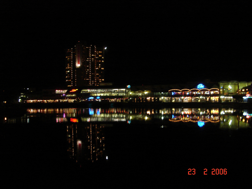 Bloemfontein Waterfront in the evening